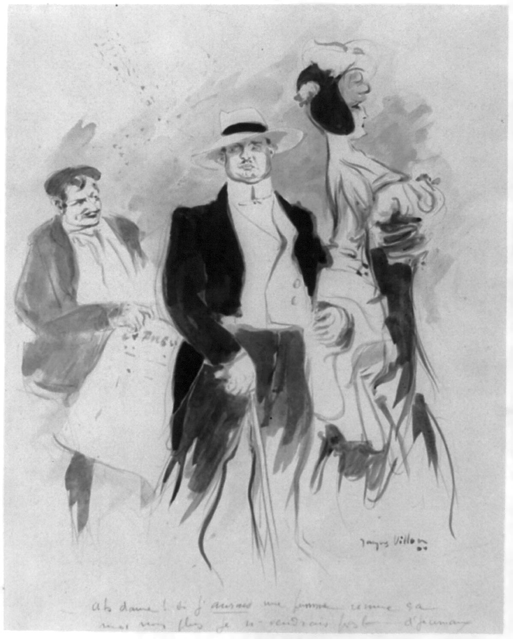 Drawing by Jacques Villon (1875-1963). A fashionably dressed man and woman walk away from a man selling newspapers. Translation of caption: "Oh boy! If I had a woman like you I wouldn't sell newspapers anymore!" 1 drawing: India ink and gray wash over pencil on drawing board, 50 x 37 cm. (sheet).